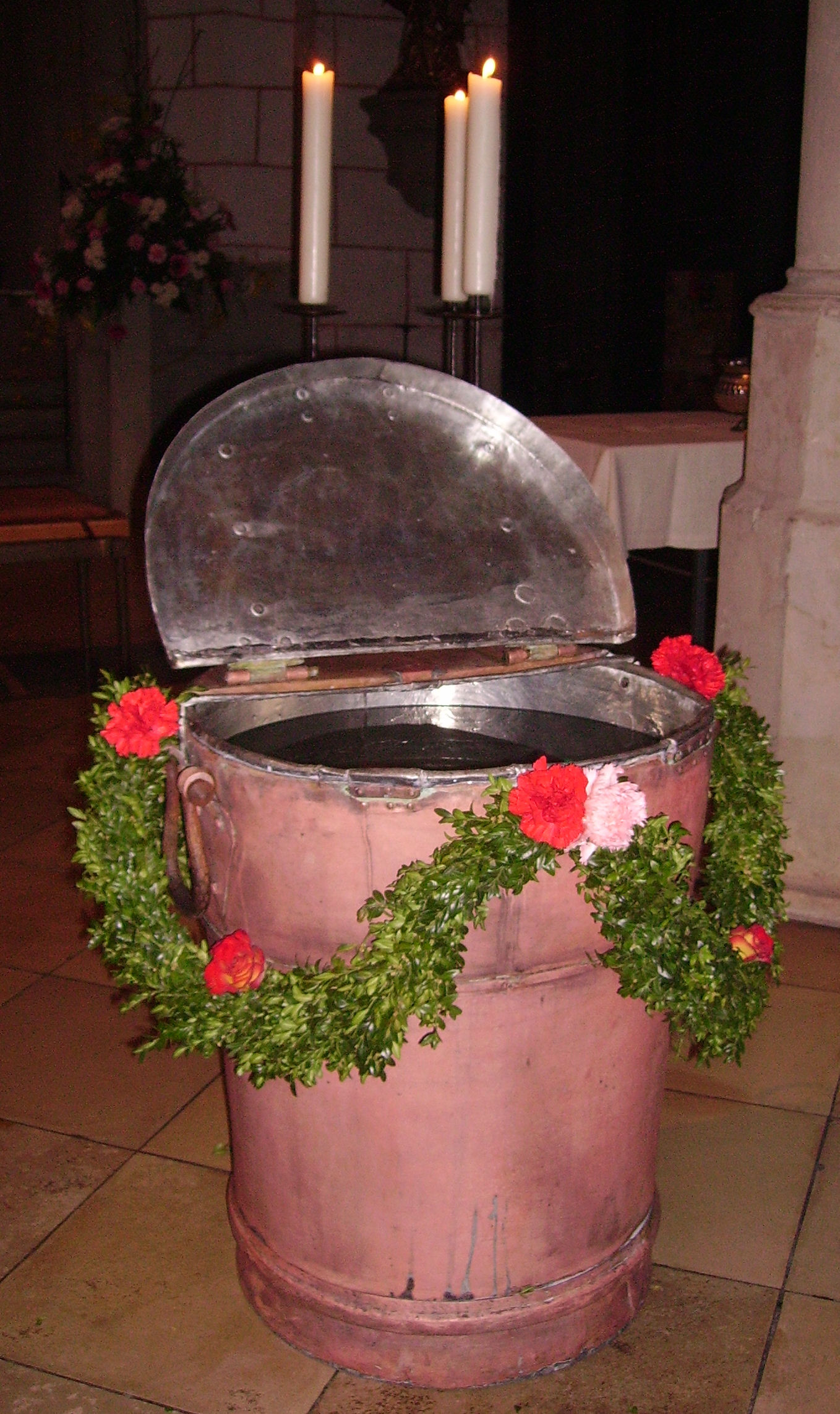 Holy water